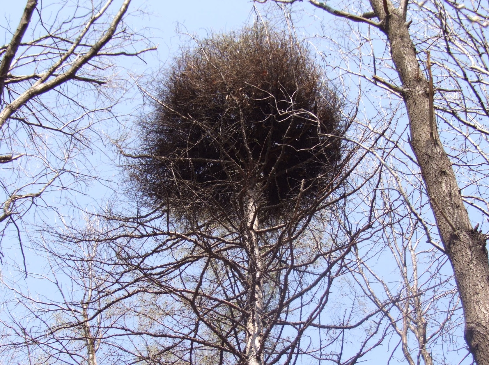 Larix decidua with witch's broom